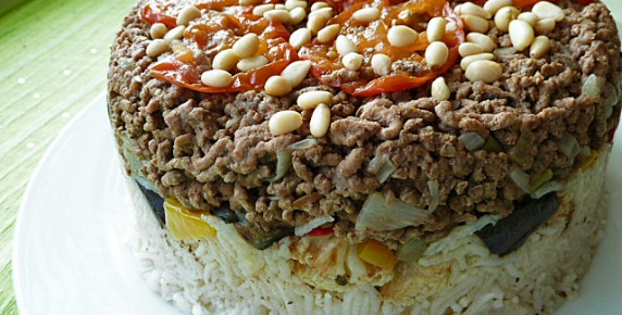 Maqluba From middle-east